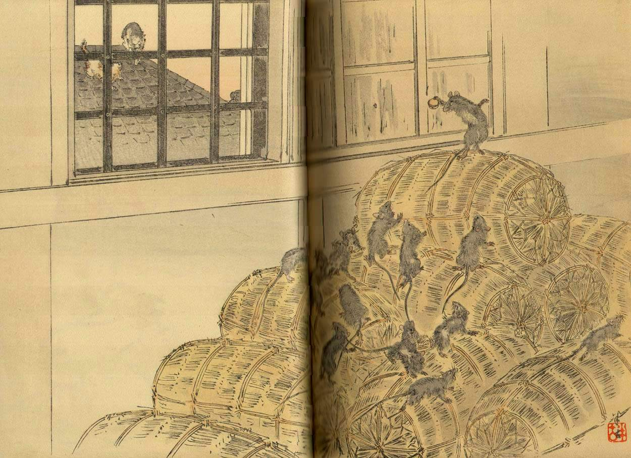 A woodblock illustration of "The Mice in Council" in the Choix de Fables de La Fontaine, Illustrée par un Groupe des Meilleurs Artistes de Toki, Tokyo 1894